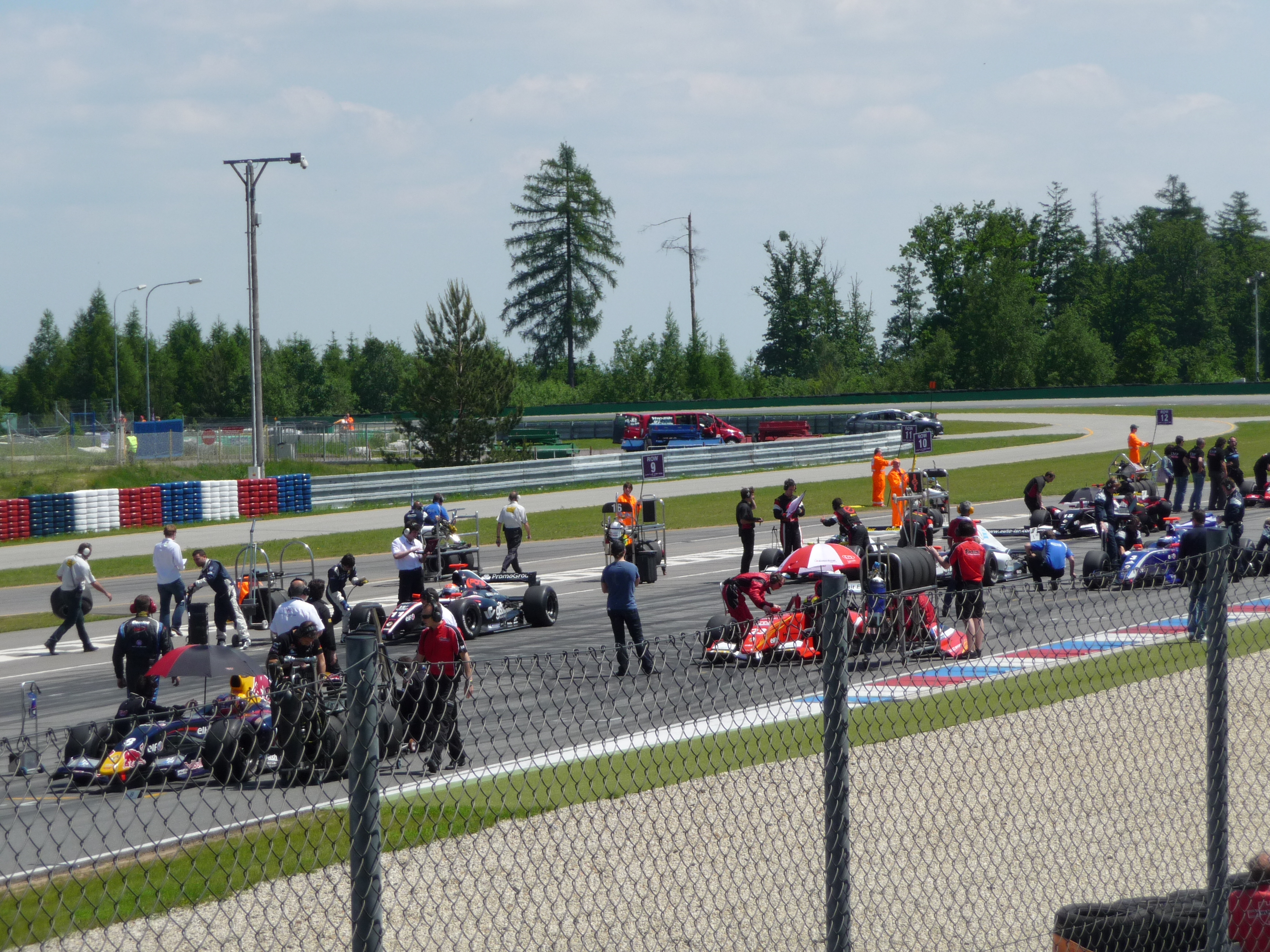 Daniel Ricciardo, Federico Leo, Sten Pentus, Daniil Move, Mikhail Aleshin and Albert Costa before start, Formula Renault 3.5 Series, 2nd race, 2010 Brno World Series by Renault -10-5-3-2◄►+2+3+5+10